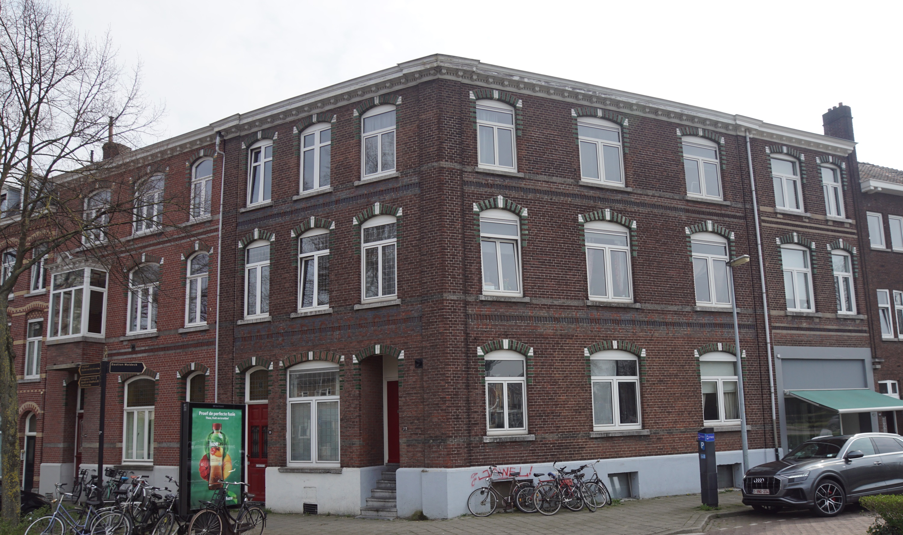 Tongerseweg 21-23-25 and Tongerseplein 19-20, Maastricht, The Netherlands.